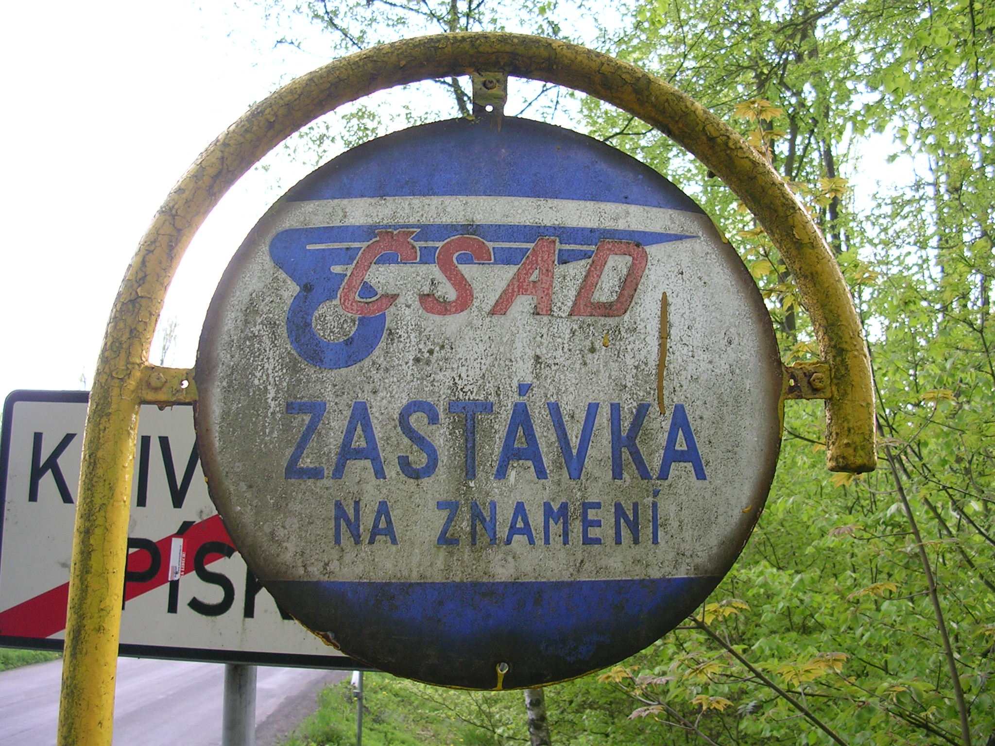 Bus stop Křivoklát-Píska, the Czech Republic.